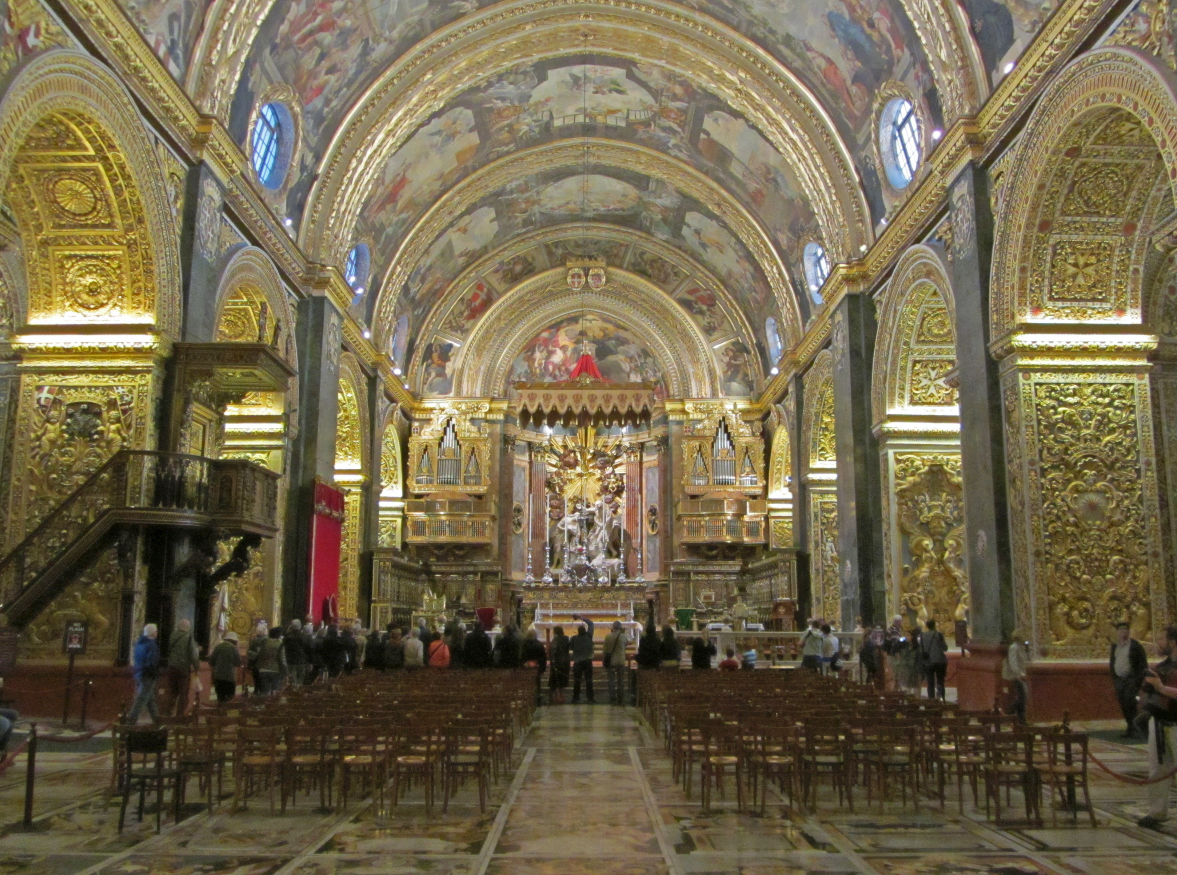 Main nave